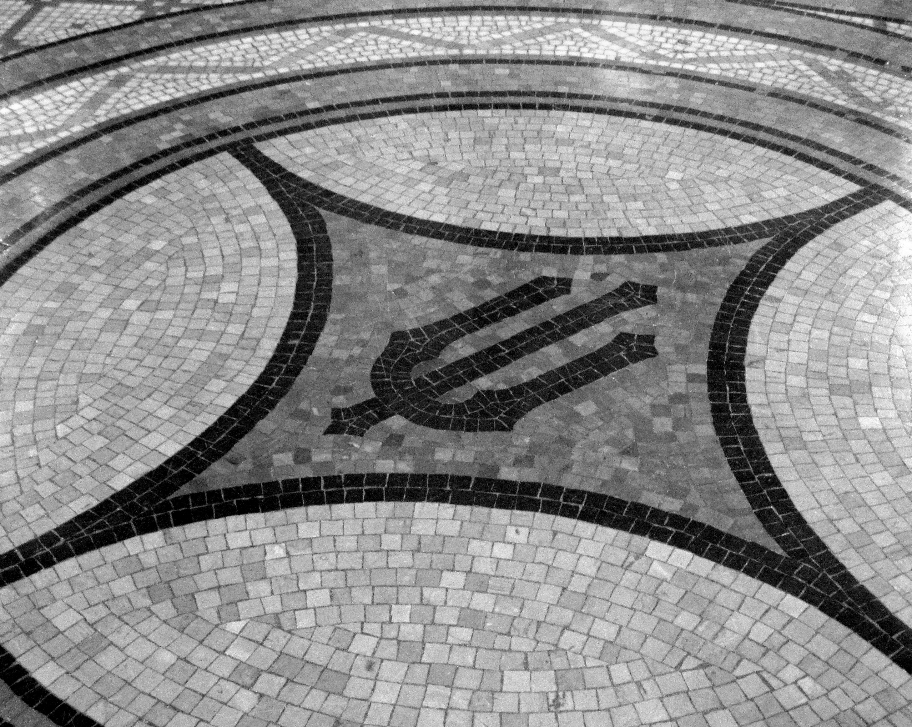 Altgeld Hall, University of Illinois, University of Illinois campus, corner of Wright and John Sts. Urbana